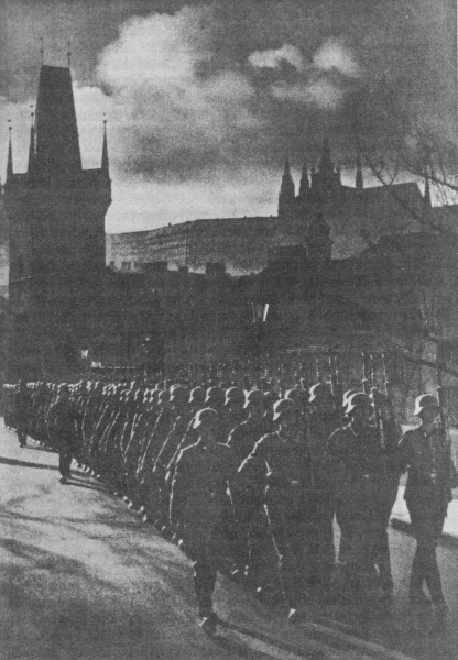 15. March 1939 - German occupation of Bohemia and Moravia - the German army in Prague